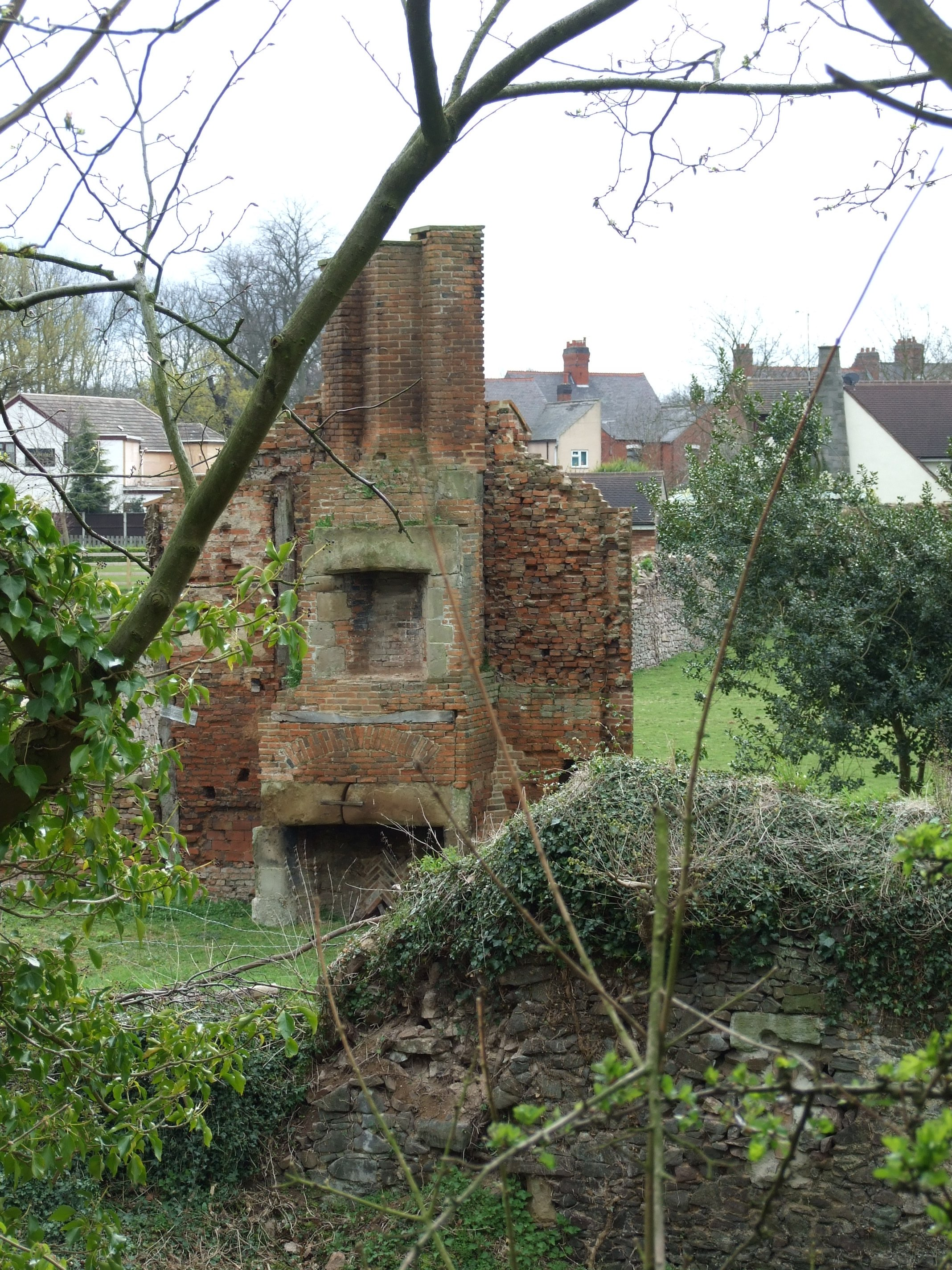 Hartshill Castle